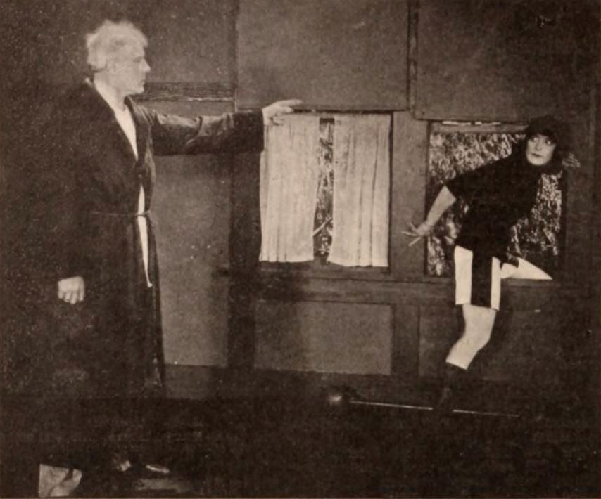 Still from the American comedy drama film What Women Love (1920) with Ralph Lewis and Annette Kellerman, on page 48 of the June 12, 1920 Exhibitors Herald.